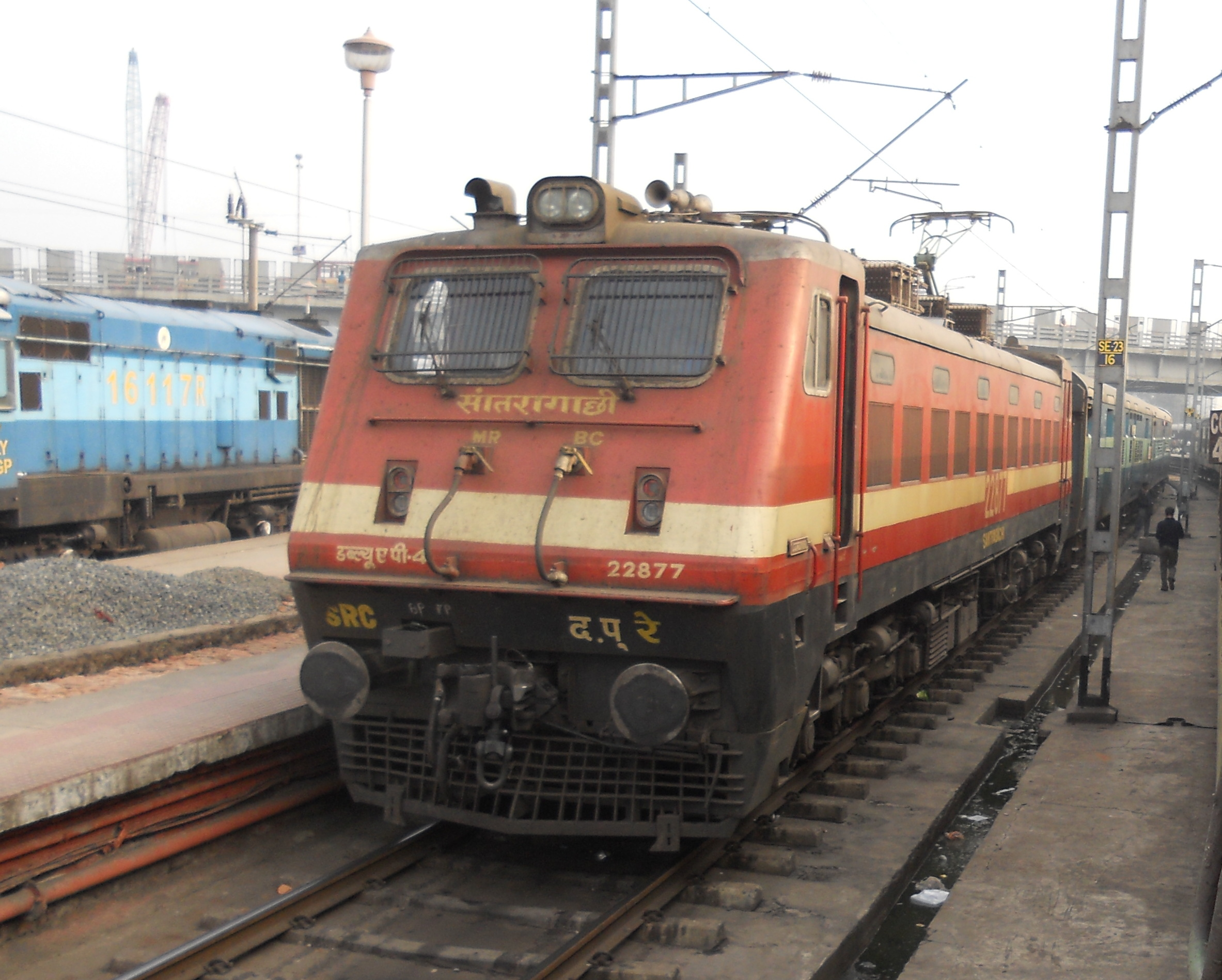 (12841 Howrah - Chennai Central) Coromandel Express at Howrah Jn